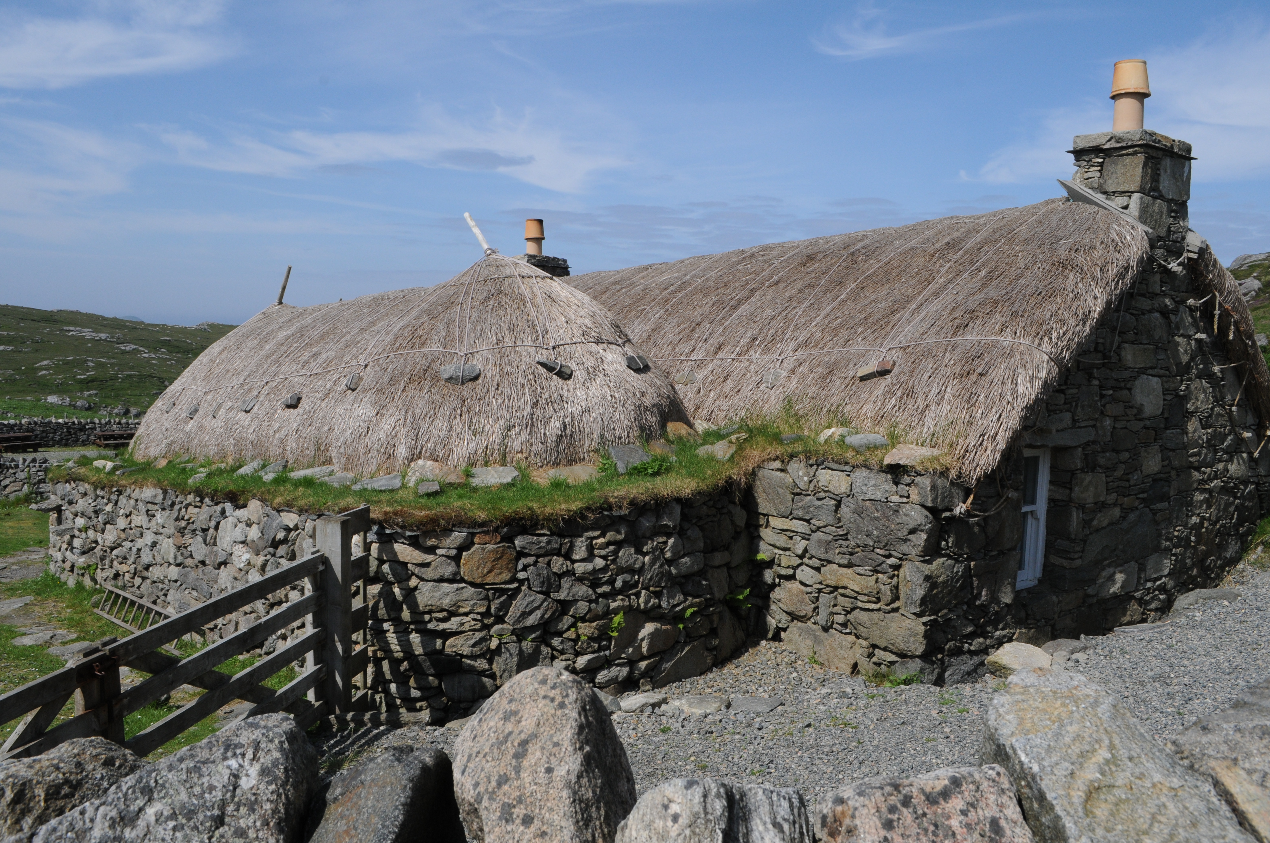 The Gearrannan Blackhouses museum building